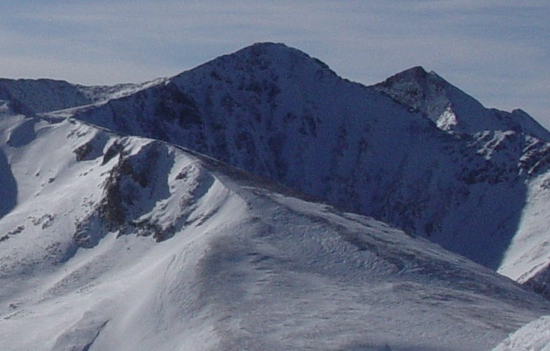 View from the summit of Breckenridge Ski Resort's Peak 8, facing East.